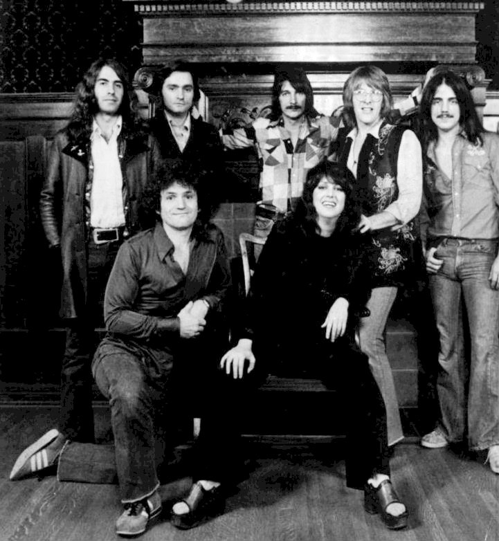 Publicity photo of Jefferson Starship. Back, from left-Pete Sears, Marty Balin, John Barbata, Paul Kantner, Craig Chaquico. Front from left-David Freiberg, Grace Slick.